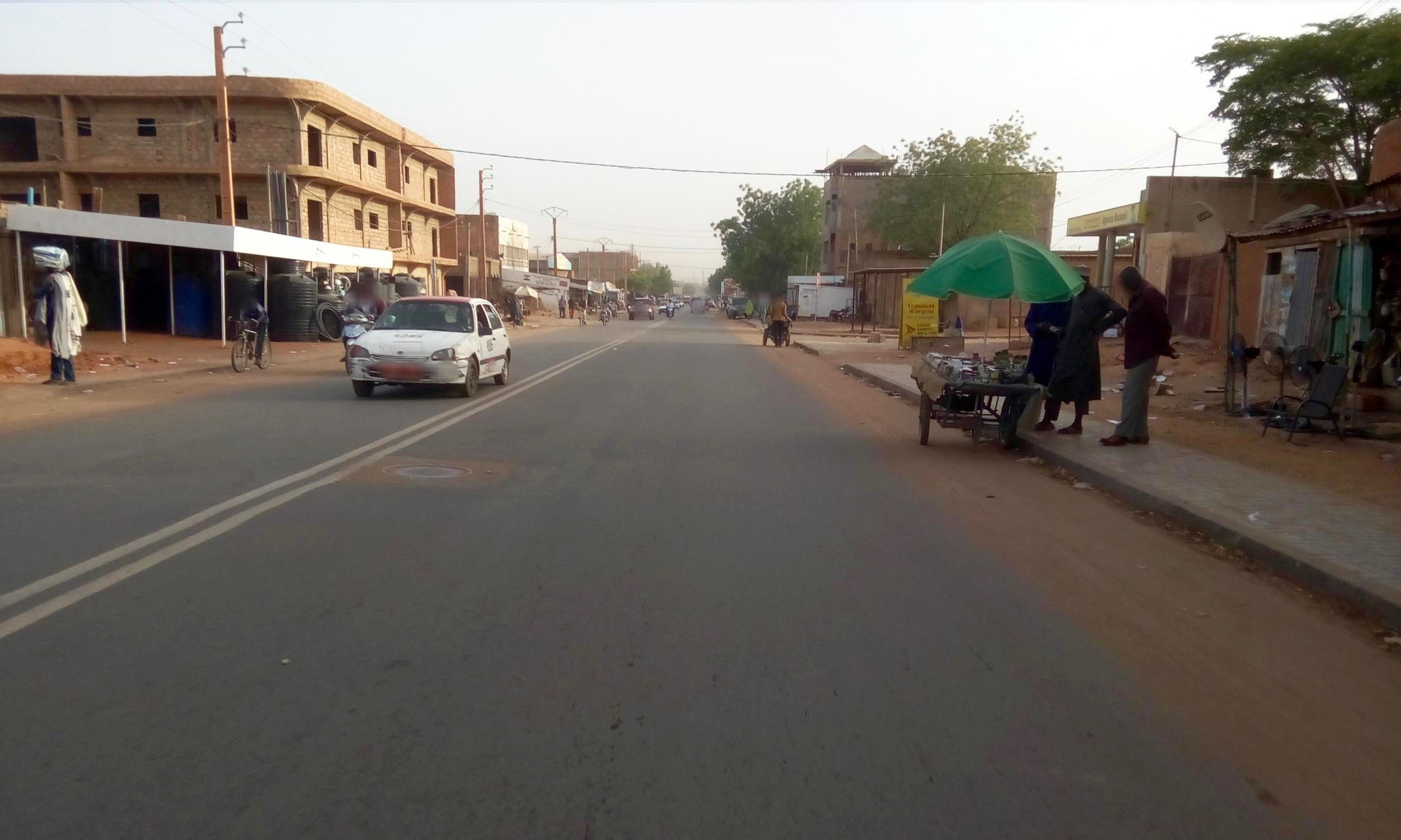 Avenue de l’Ader as the boundary road between the quarters of Boukoki IV (left) and Boukoki II (right), Niamey.